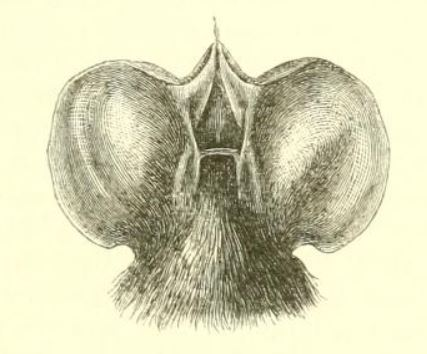 Ears of the northern free-tailed bat as viewed from the back (published as Nyctinomus johorensis in 1876 text)